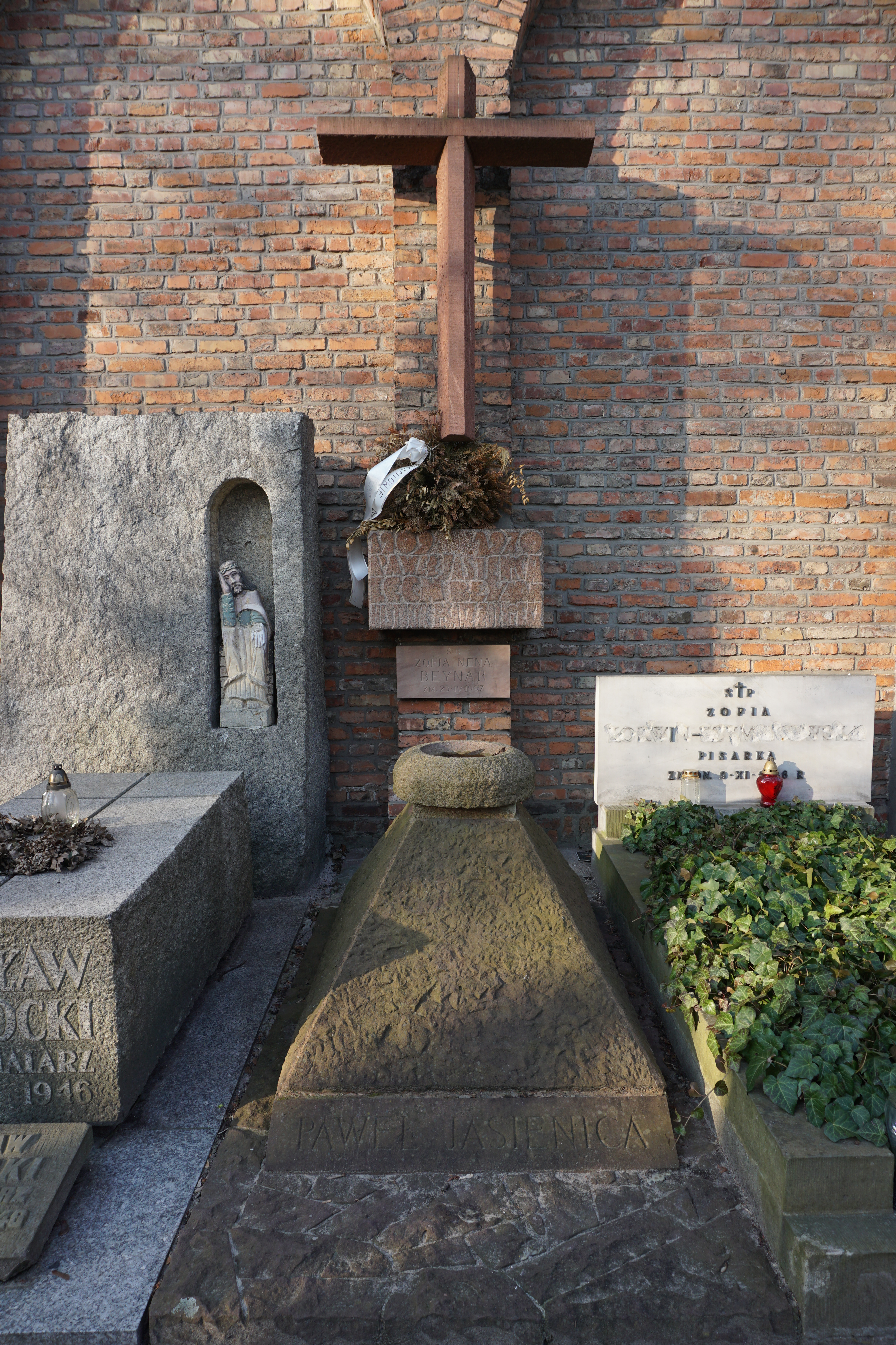 The grave of Paweł Jasienica at the Powązki Cemetery (Avenue of Deserved, grave 38)